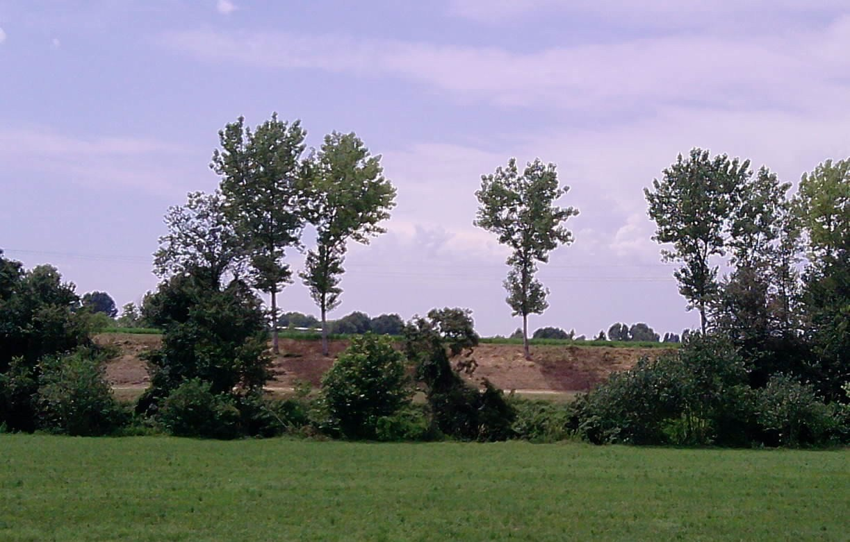 The hill of Castellaro at gottolengo